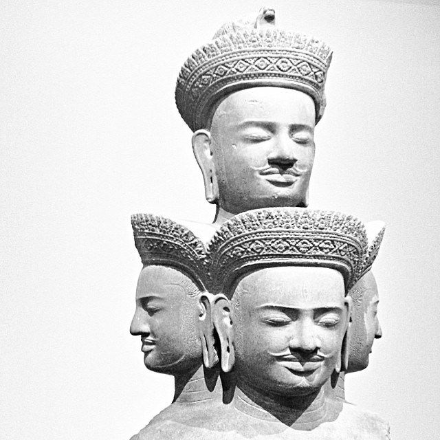 Sadasiva is discussed in Pancabrahma Upanishad of Hinduism